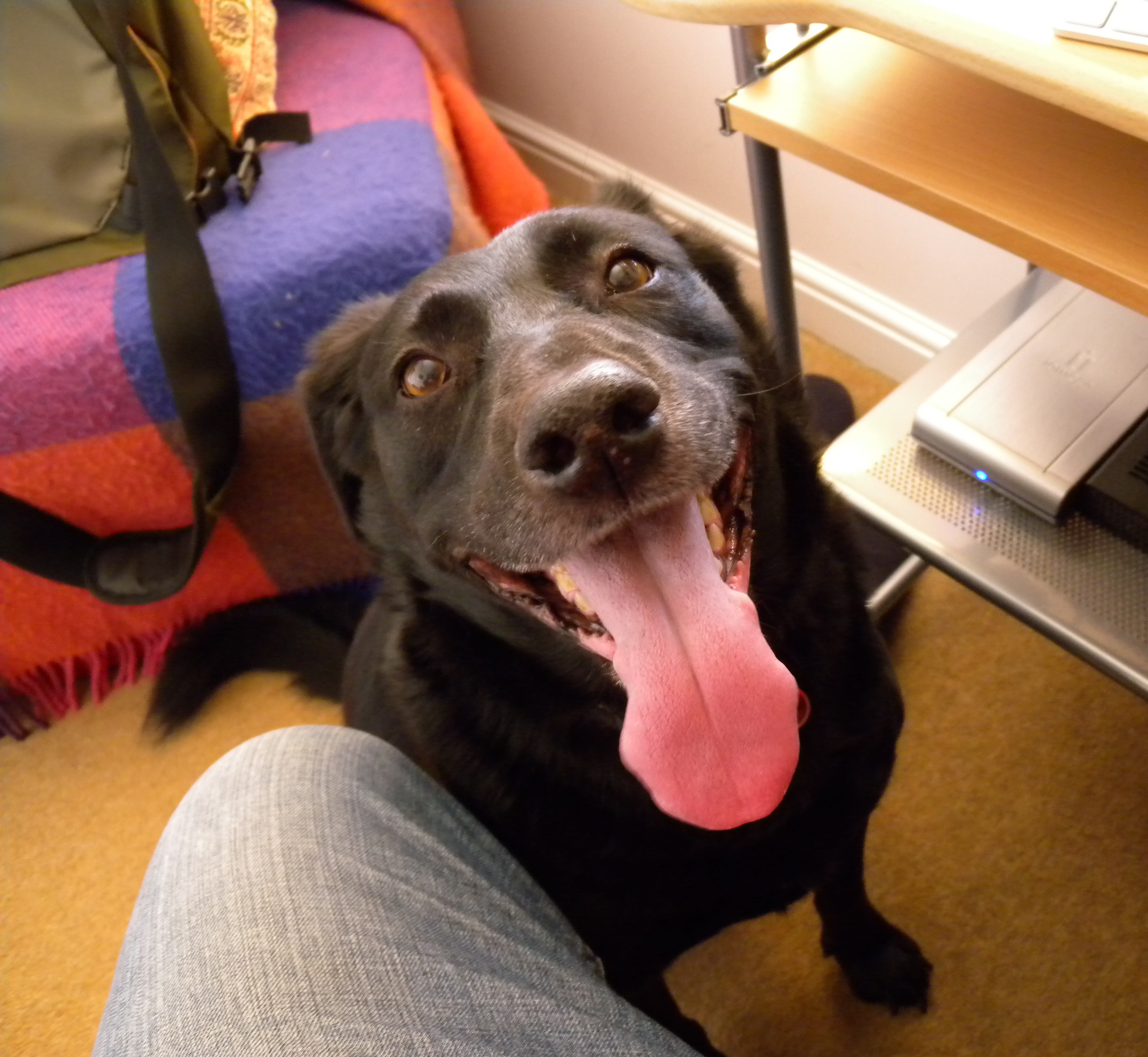 Boo has learned, rather late in life that being nice to people is a "good thing"... And, besides, it gets you more treats :) The fascinating thing about Boo's expression here is that this "smiling" is apparently something dogs only use with humans. They don't use it with other dogs at all.